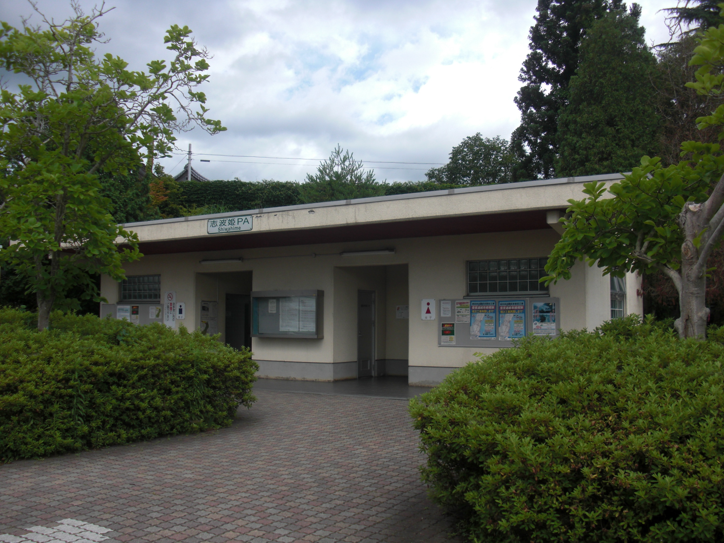 This is the Tohoku Expressway Shiwahime Parking Area in Kurihara, Miyagi, Japan.